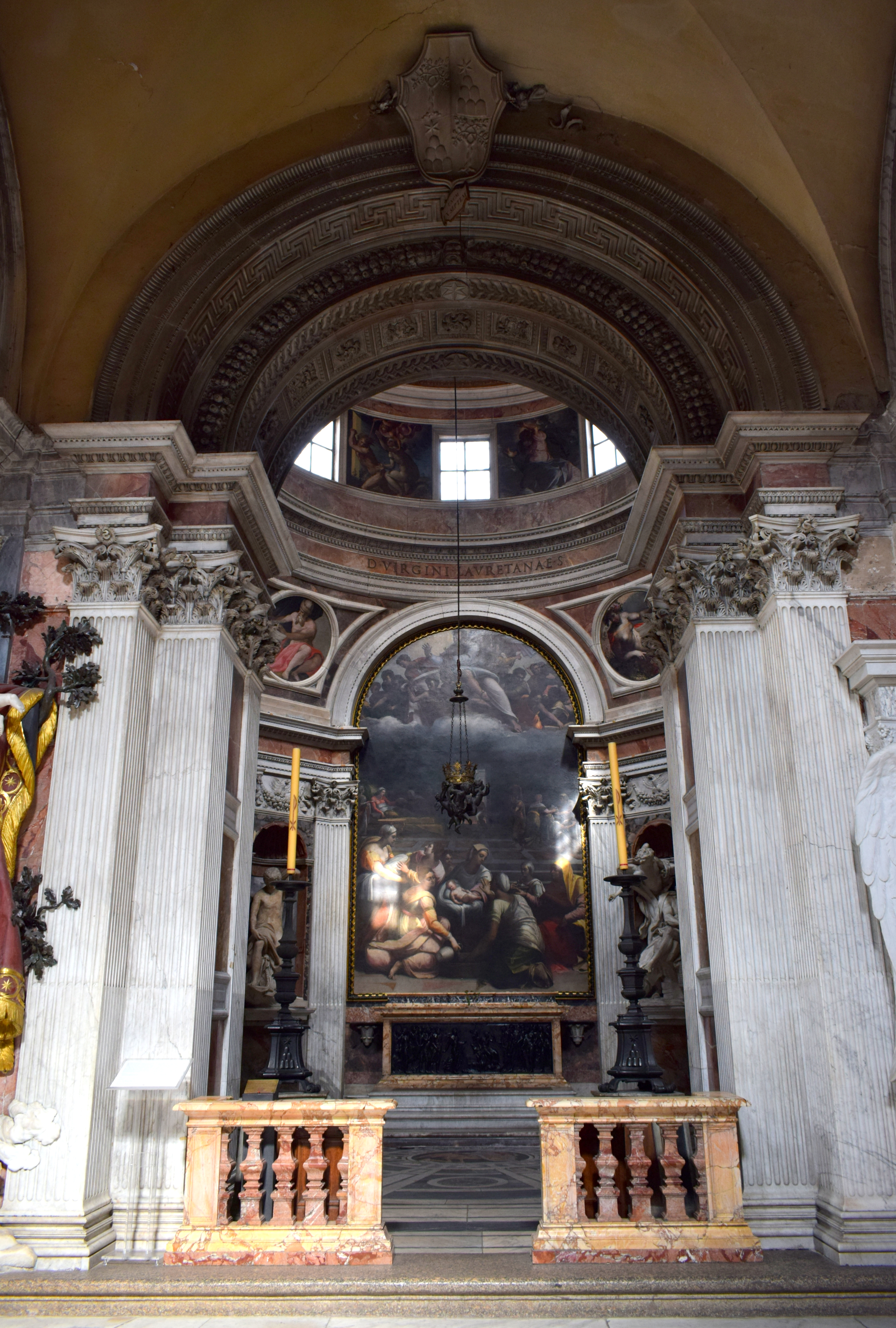 Outside view of the Chigi Chapel, Santa Maria del Popolo.